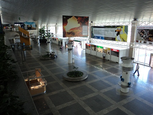 Arrival Hall BEL